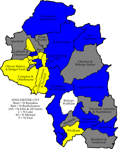 A map of the results of the 2007 Winchester Council election. Colour legend by wards won: Conservative party Liberal Democrats Independent Wards in grey were not contested in 2007.